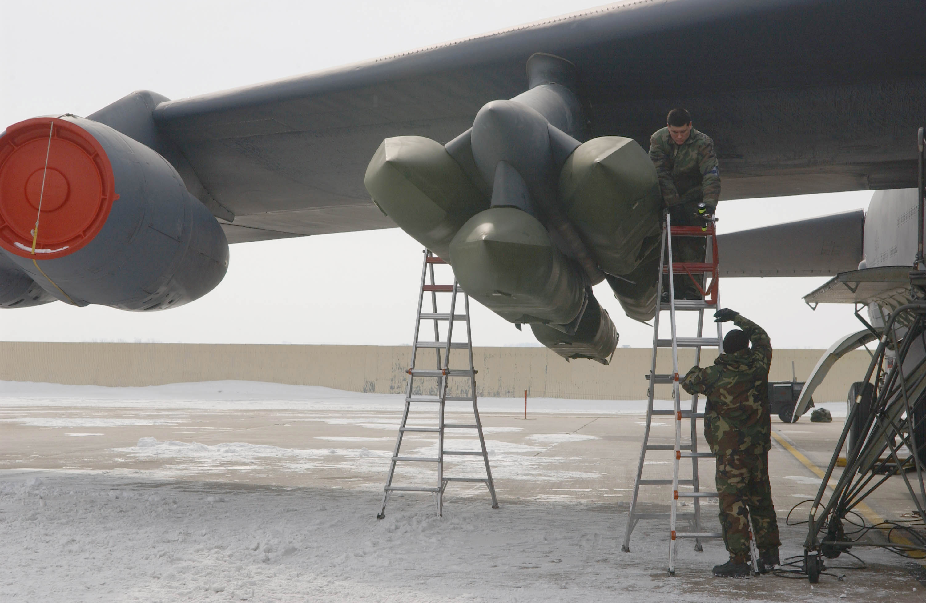 Airmen secure an ACM cruise missile to a B-52 Stratofortress pylon during an alert generation exercise at Minot Air Force Base